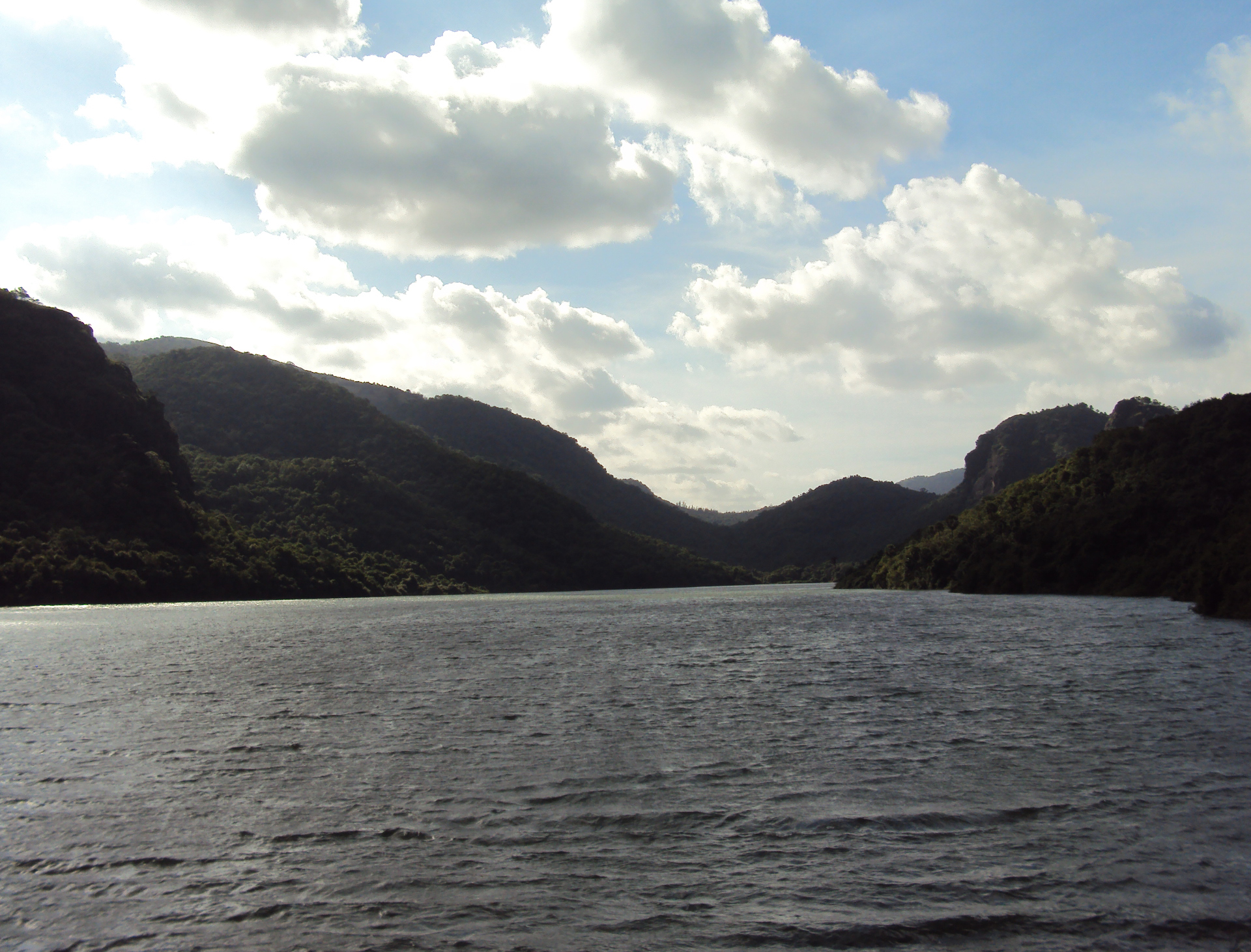 Natural,Dam,Mountain,Water body